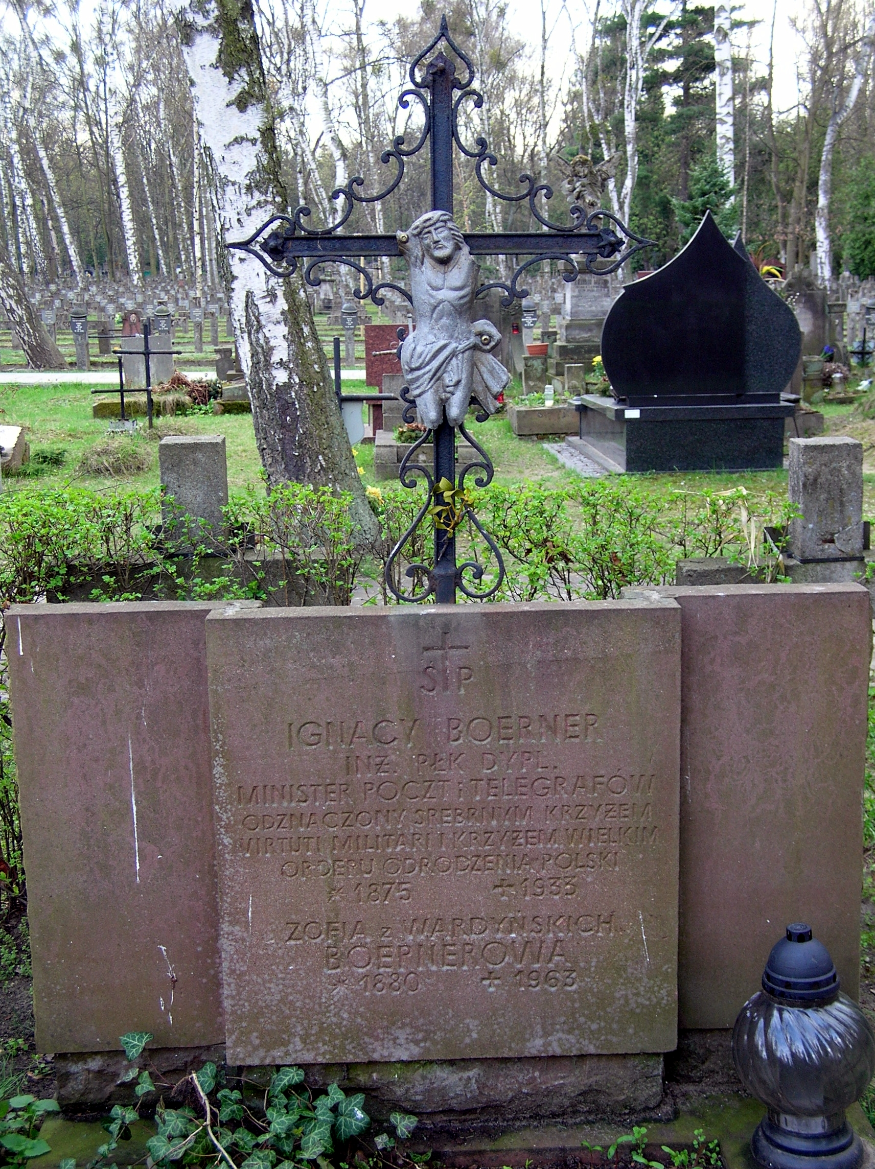 Tomb of Ignacy Boerner